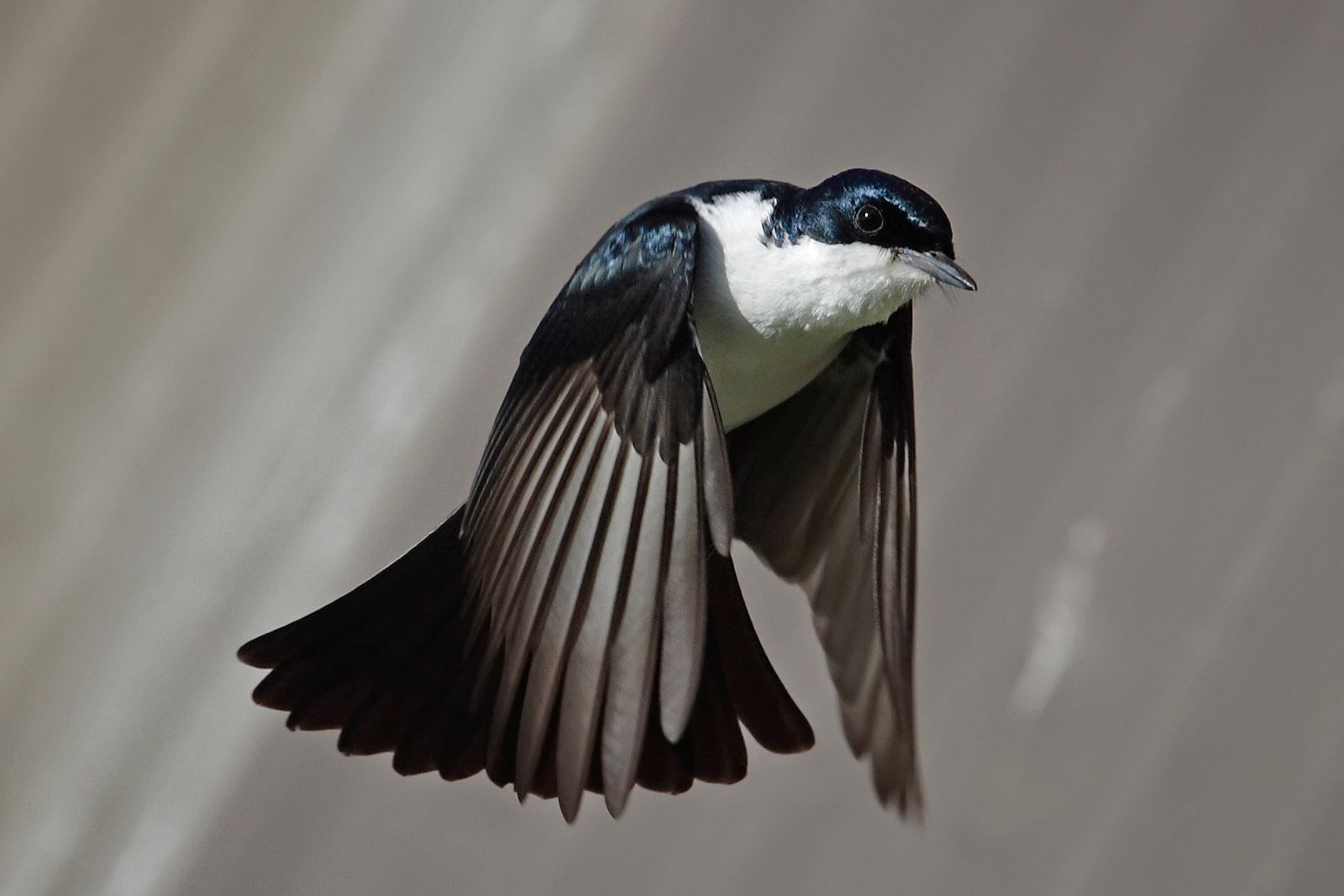 Restless Flycatcher, Myiagra inquieta, commonly known as the "Scissor Grinder" due to the unique rasping call the bird makes whilst hovering.